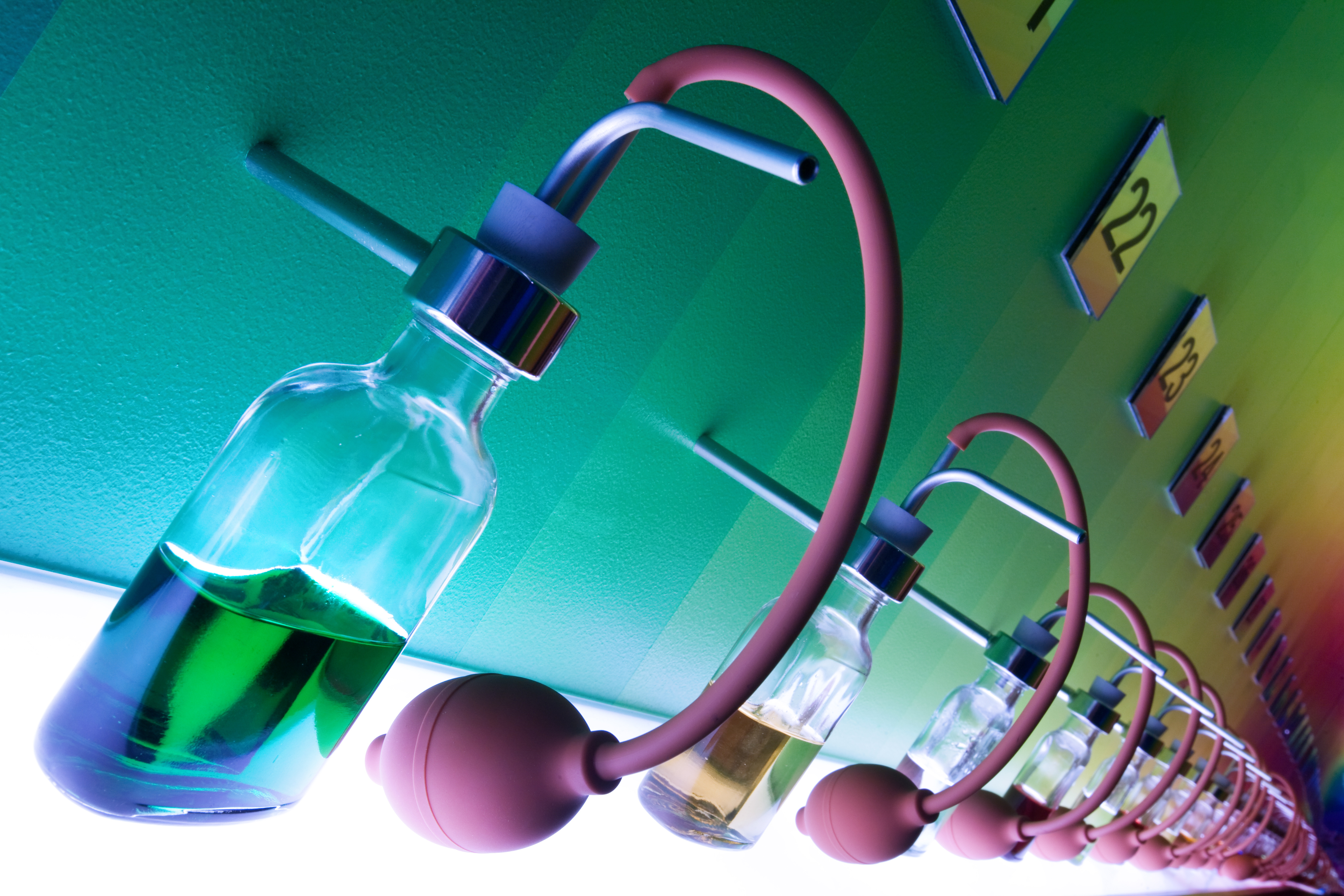 Coloured liquor bottles in the Bols Museum. Amsterdam, The Netherlands